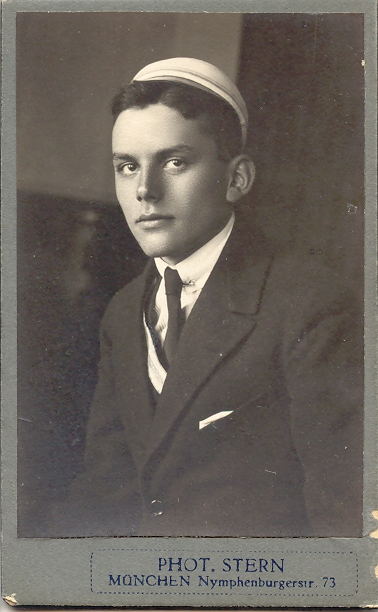 Eduard Bruecklmeier (1903 - 1944)